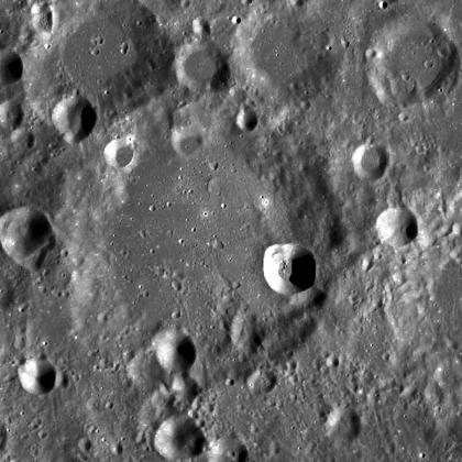 Parenago lunar crater - LROC image